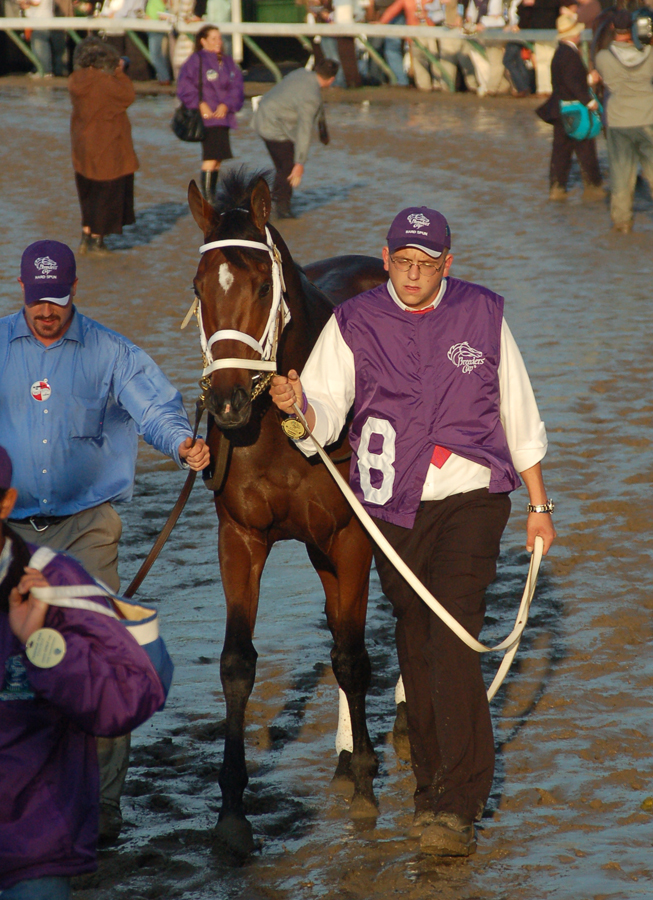 Racehorse Hard Spun being led to the paddock for the 2007 Breeders' Cup Classic at Monmouth Park.